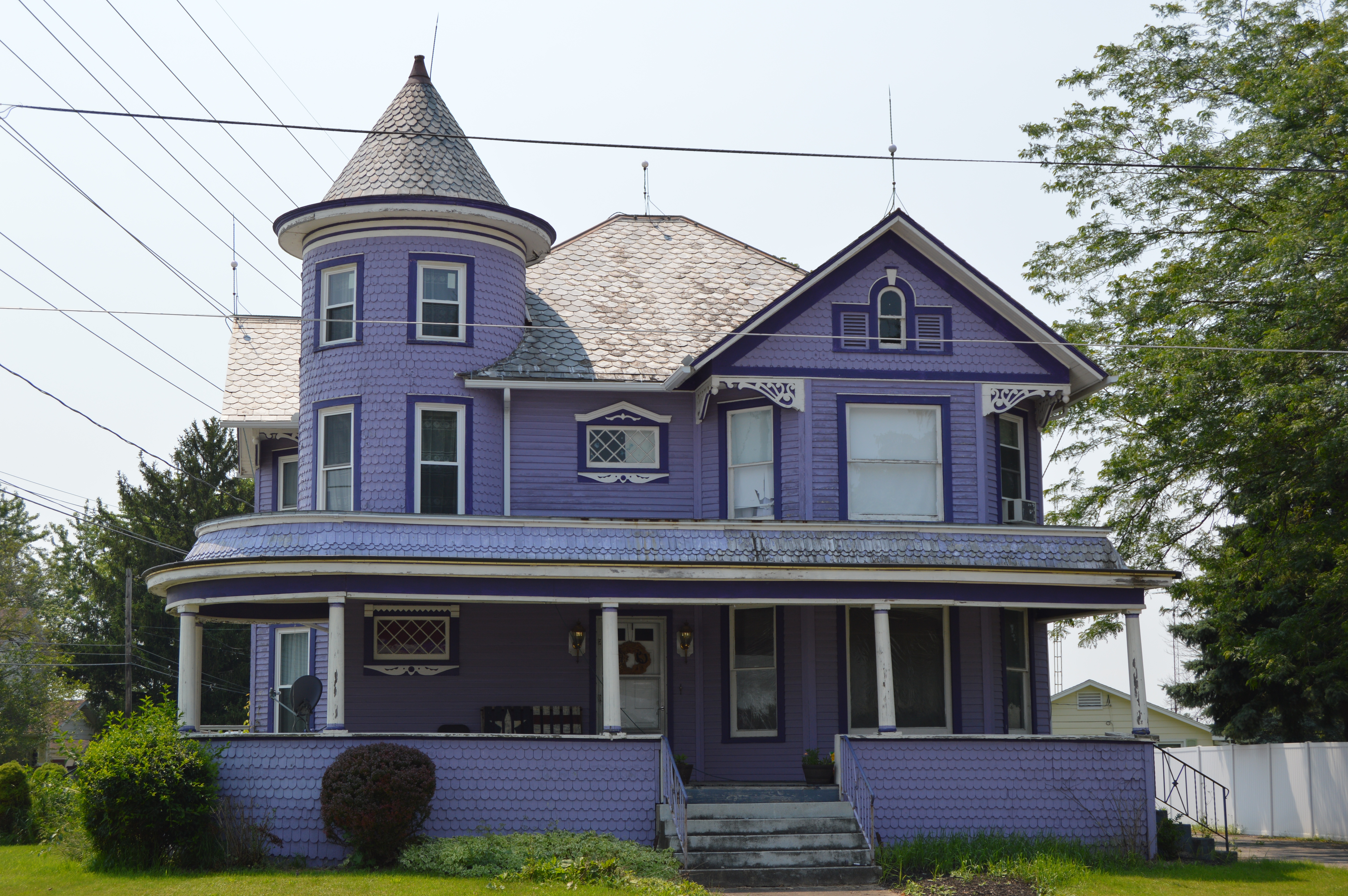 Front of the house located on the northwestern corner of Main (U.S. Route 68) and Geneva (State Route 81) Streets in Dunkirk, Ohio, United States.